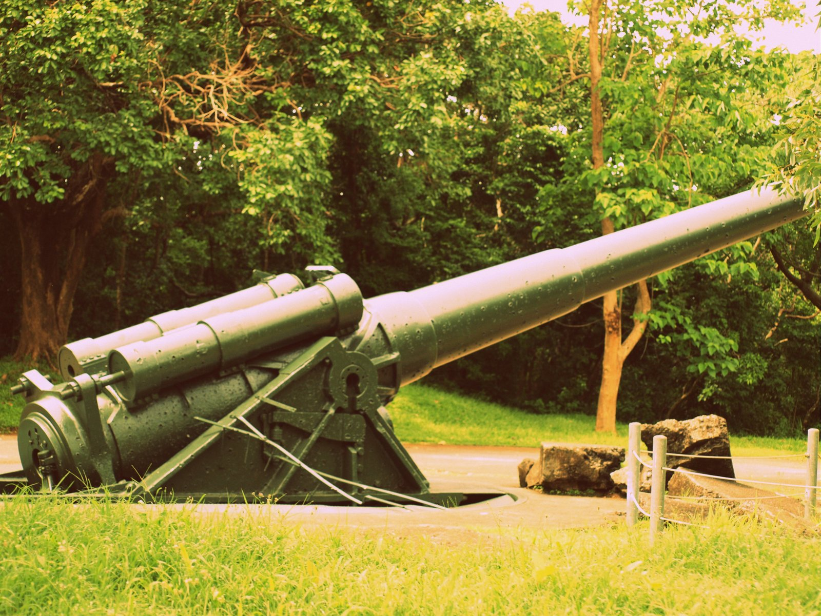 Right side view of US M1895 12 inch gun on Corregidor.